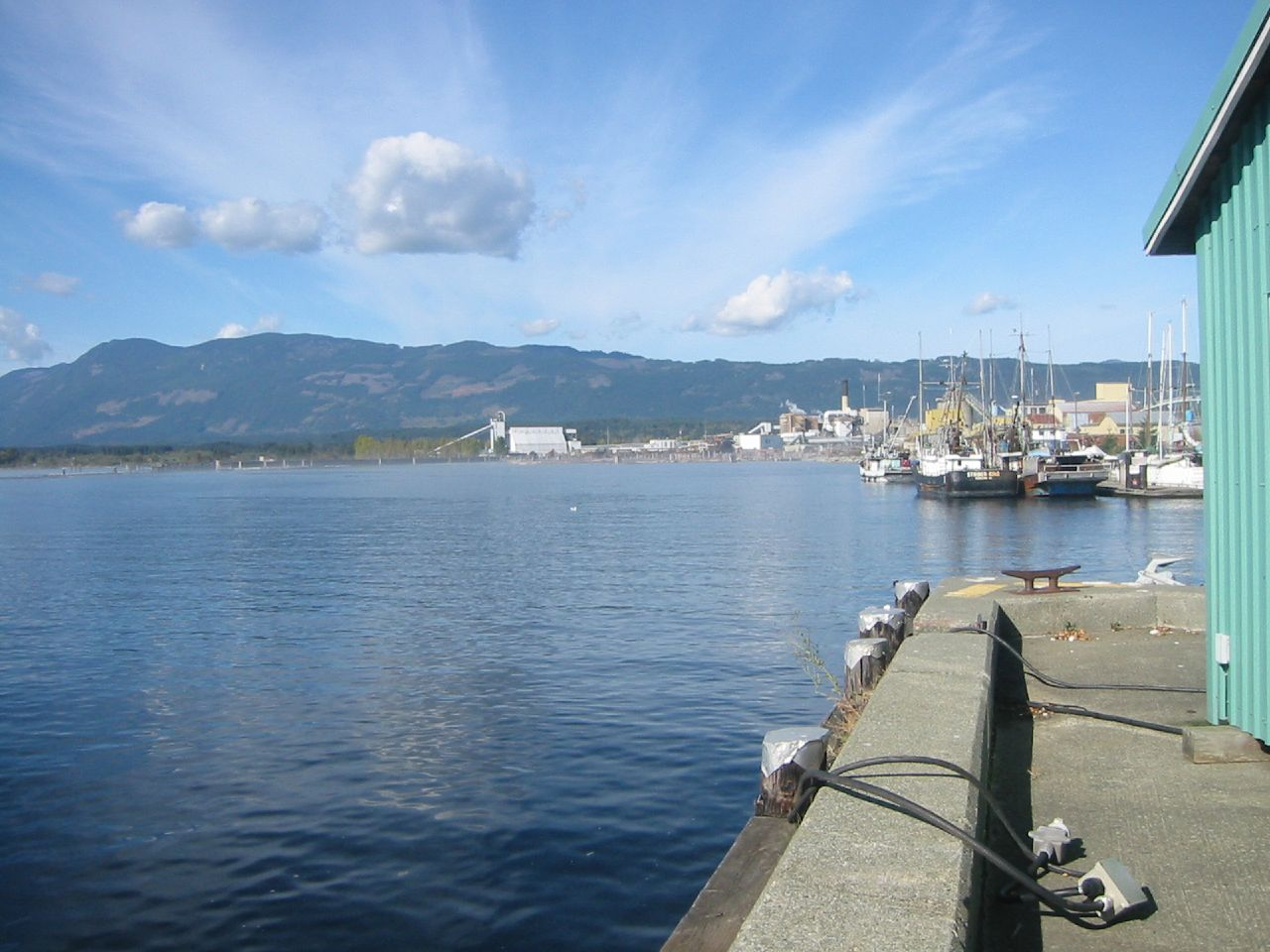 Harbour of Port Alberni, British Columbia, Canada